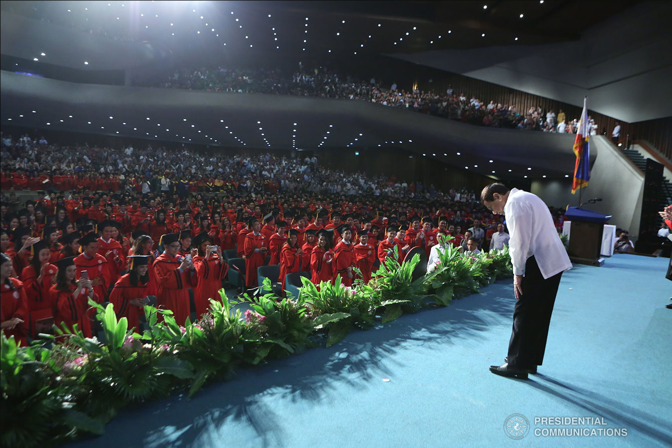 President Rodrigo Roa Duterte shows a gesture of respect as he takes center stage during the San Beda University (SBU) Commencement Exercises at the Philippine International Convention Center in Pasay City on May 29, 2018.